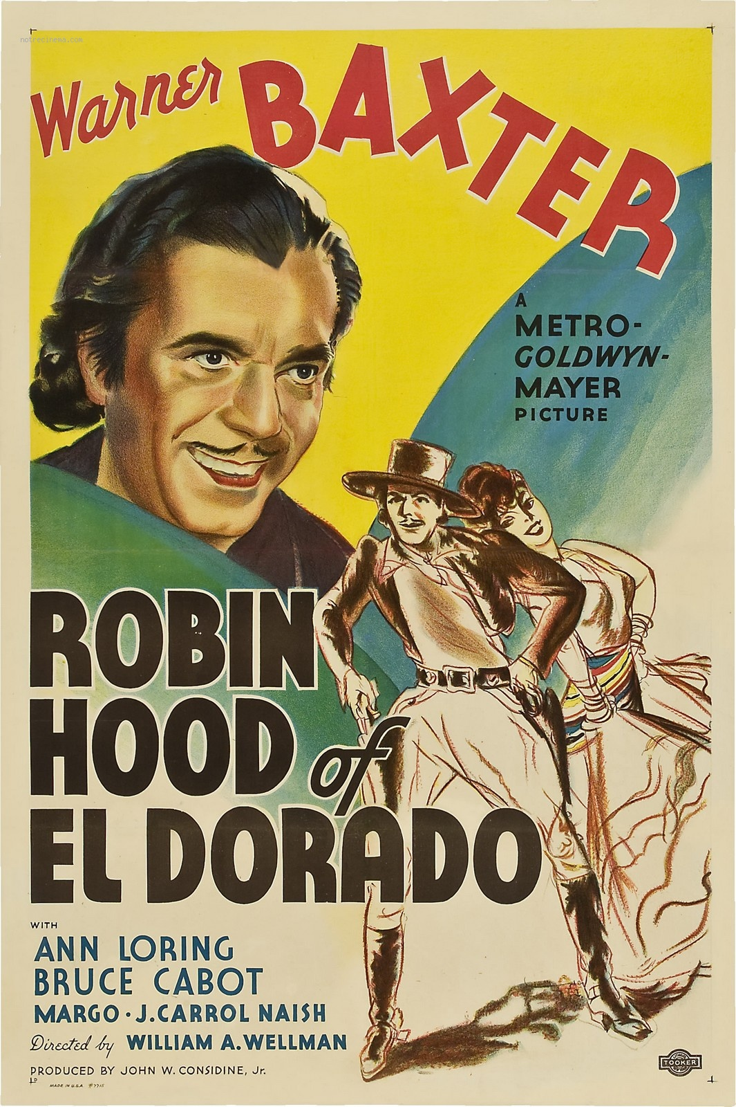 Poster for the American western film Robin Hood of El Dorado (1936). The item has no copyright markings on it as can be seen in the links above. At lower left is Made in USA and numbers apparently referring to this print job. At lower right is the Tooker Litho logo-the producers of the poster.